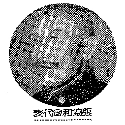 Zhang Huanxiang